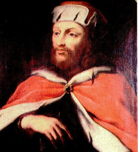 phantasy portrait from much later times